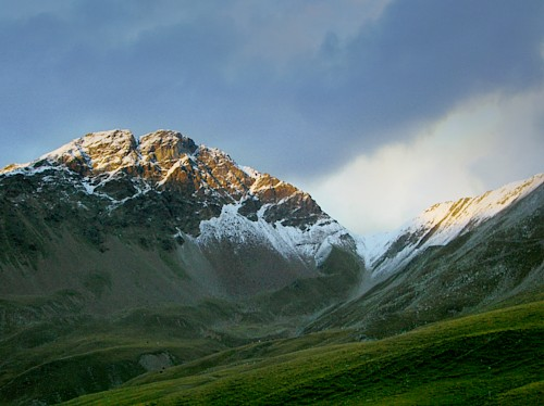 Umbrailpass. View to east, Rötelspitz Picture taken by user:Idéfix, october 2005